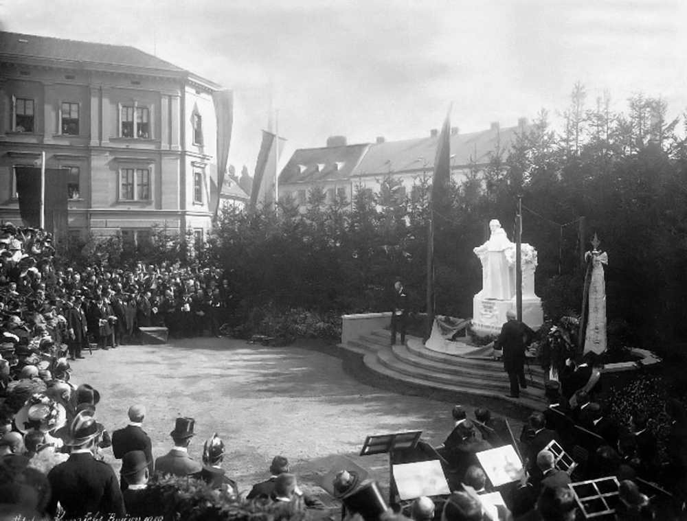 Ceremonial revelation of Gregor Mendel's monument in Brno in 1910.